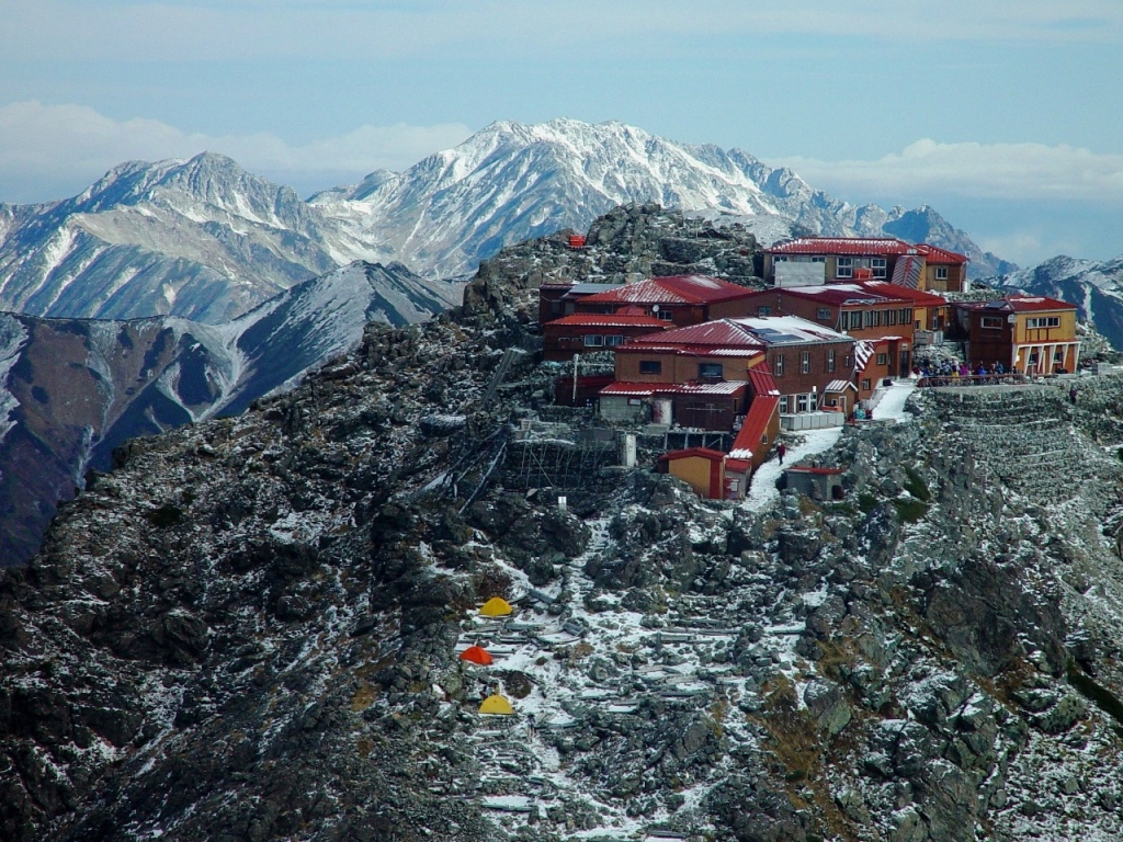 Yarigatake Sanso ("Mount Yari Hut") and Mount Tate seen from Mount Obami in the Hida Mountains, Japan